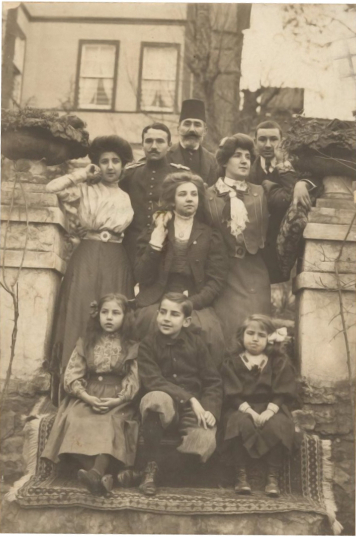 Fahrunnisa Şakir (seated on the left) with her family, in Büyükada.